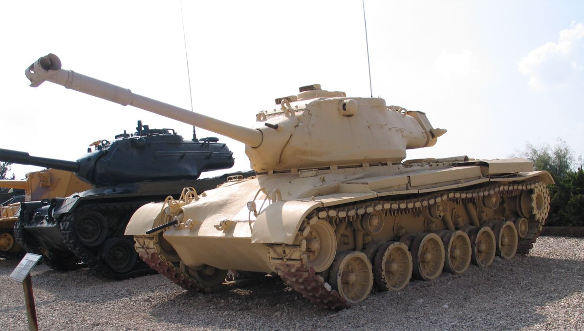 Description: Captured Jordanian M47 Patton in Yad la-Shiryon Museum, Israel. 2005. Source: Photo by me, User:Bukvoed.